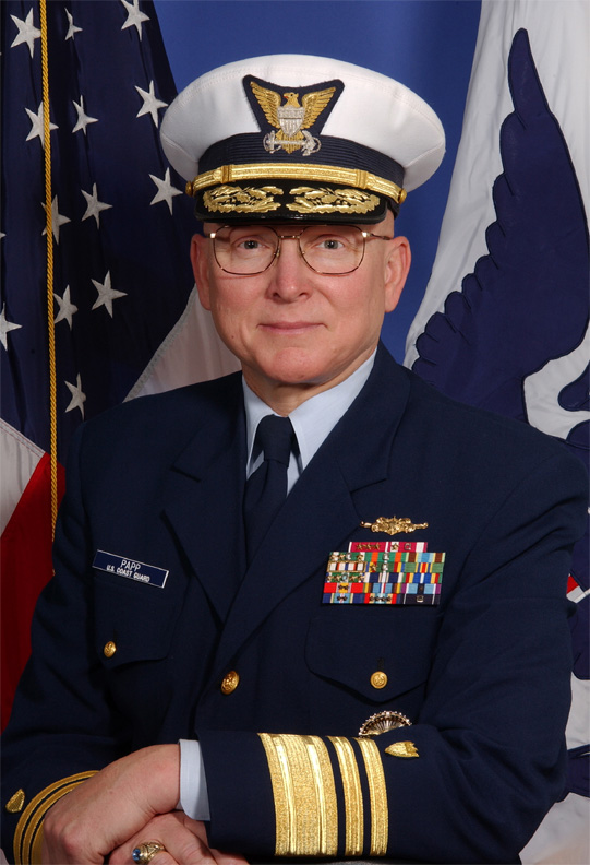 Official Photo of VADM Robert J. Papp, Jr